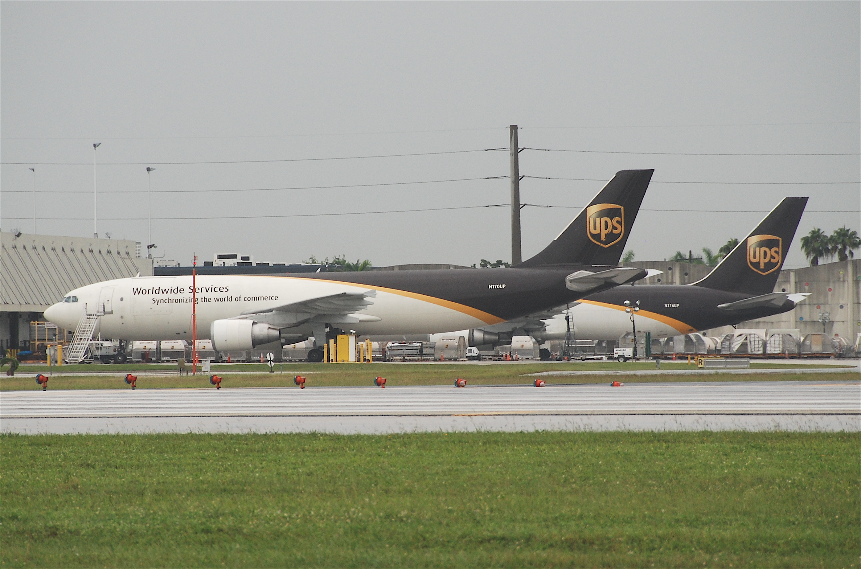 UPS Airbus A300F4-622R; N170UP@MIA;17.10.2011/626bc